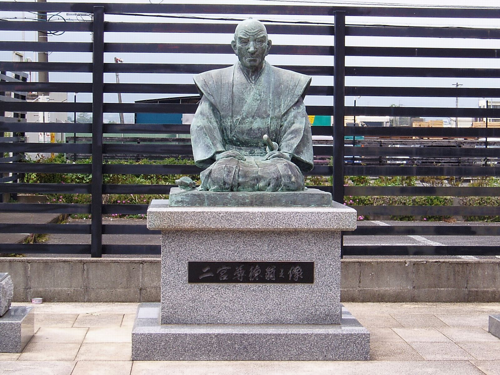 statue "Sontoku Ninomiya"